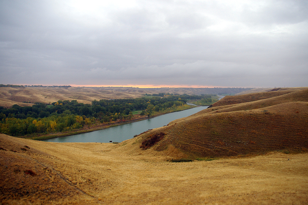 The Old Man River at sunrisee